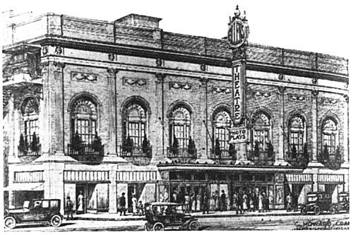 An architectural sketch of the original Allen Theatre Building at the time of its opening in 1919, now the "Met" (Metropolitan Theatre). Winnipeg, Manitoba, Canada.